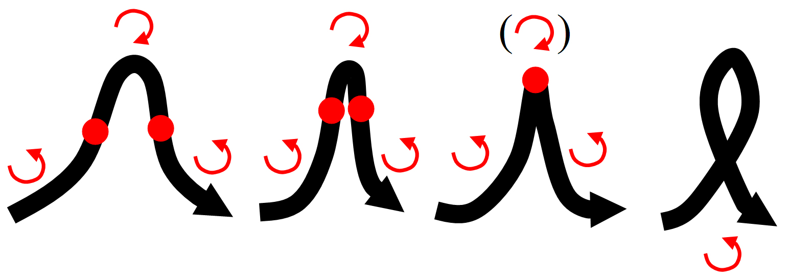 Origin of a second order turn